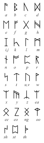 Runes used by J. R. R. Tolkien in The Hobbit and the English letter values assigned to them by Tolkien.[1]